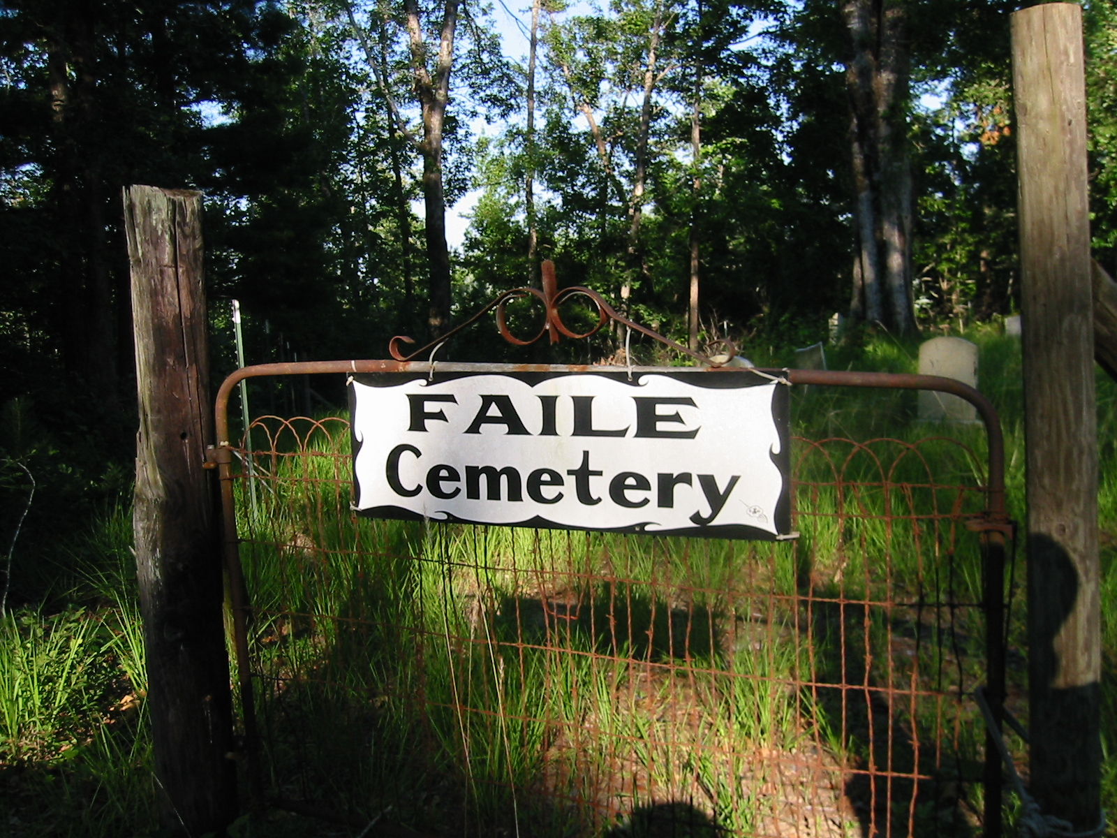 Taken in September 2005.